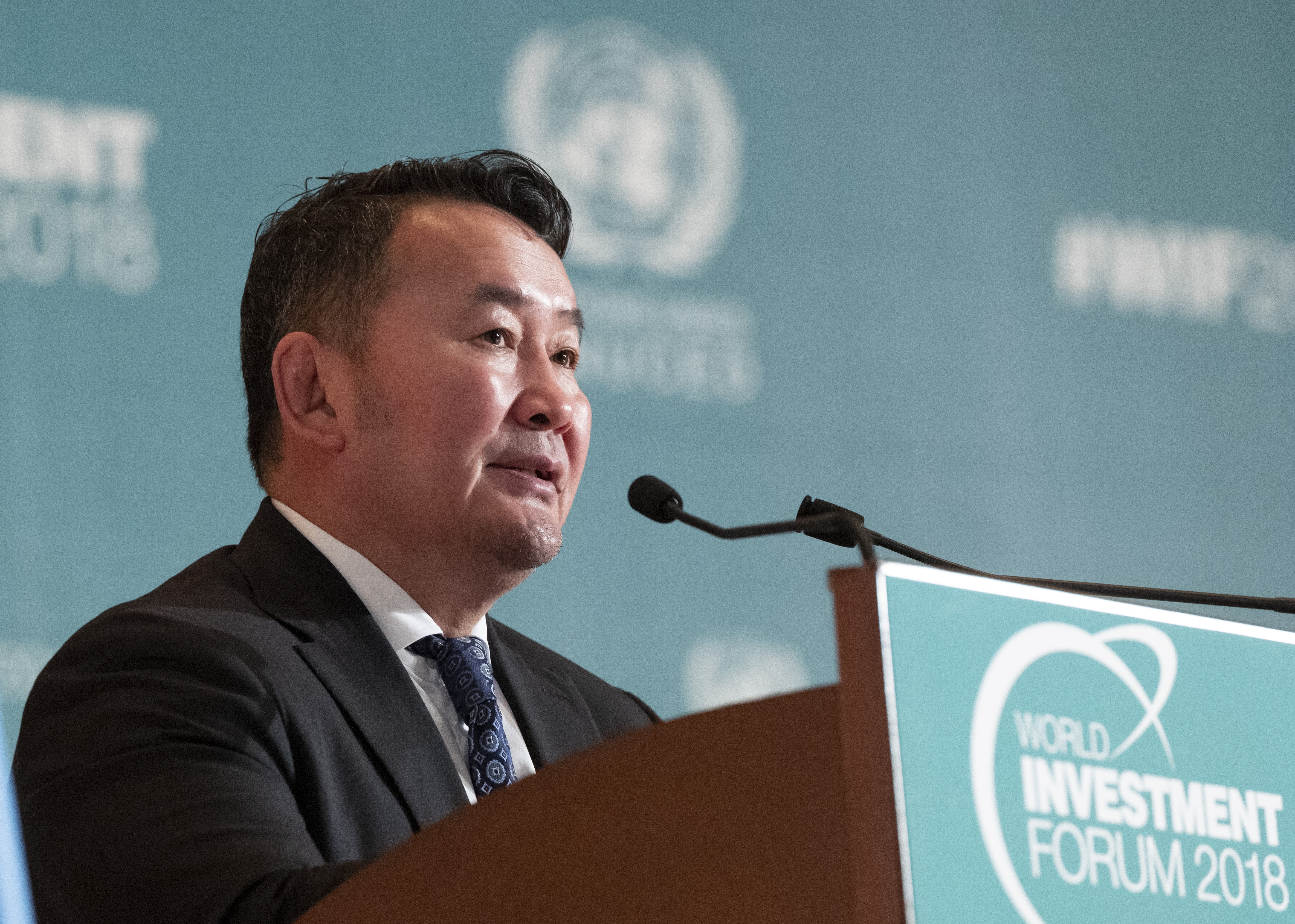 Khaltmaagiin Battulga, President of Mongolia at a Panel Global Leaders Investment Summit I Investment in a new era of globalization during the Word Investment Forum 2018. 23 october 2018. UNCTAD Photo/Jean Marc Ferré